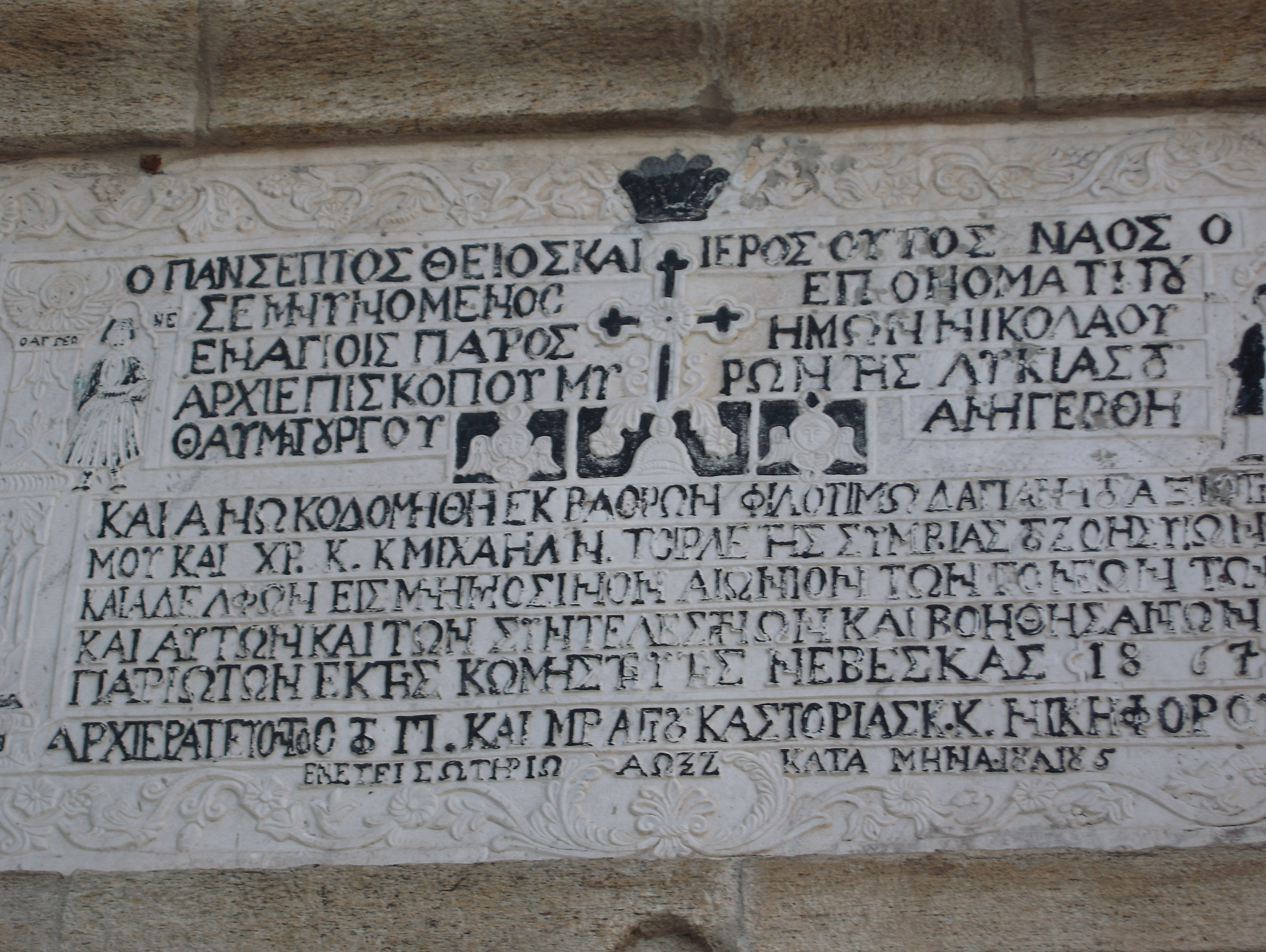 Neveska / Nymfaio